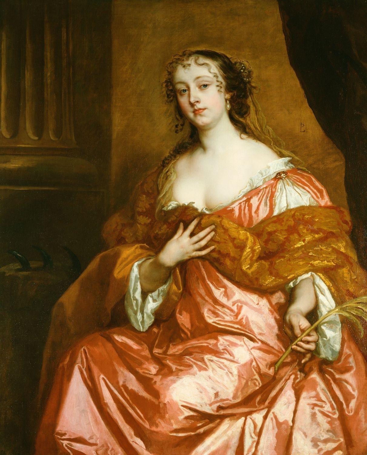 Elizabeth Hamilton, Countess of Gramont